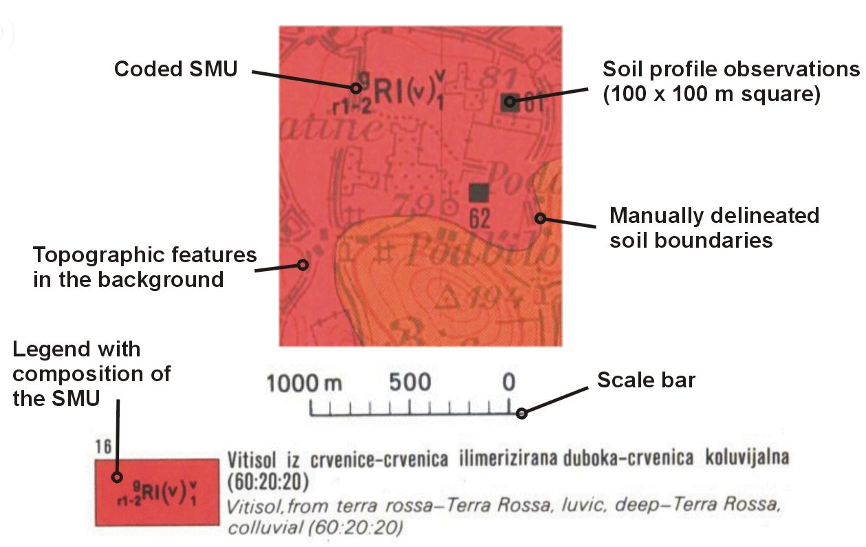 Soil map.